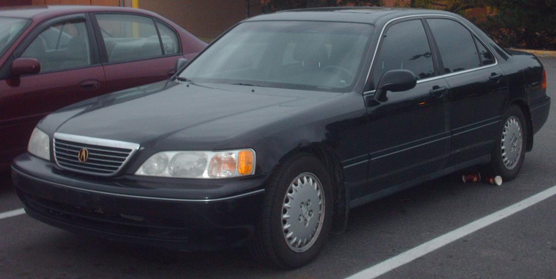 1996-1998 Acura 3.5RL photographed in Montreal, Quebec, Canada.